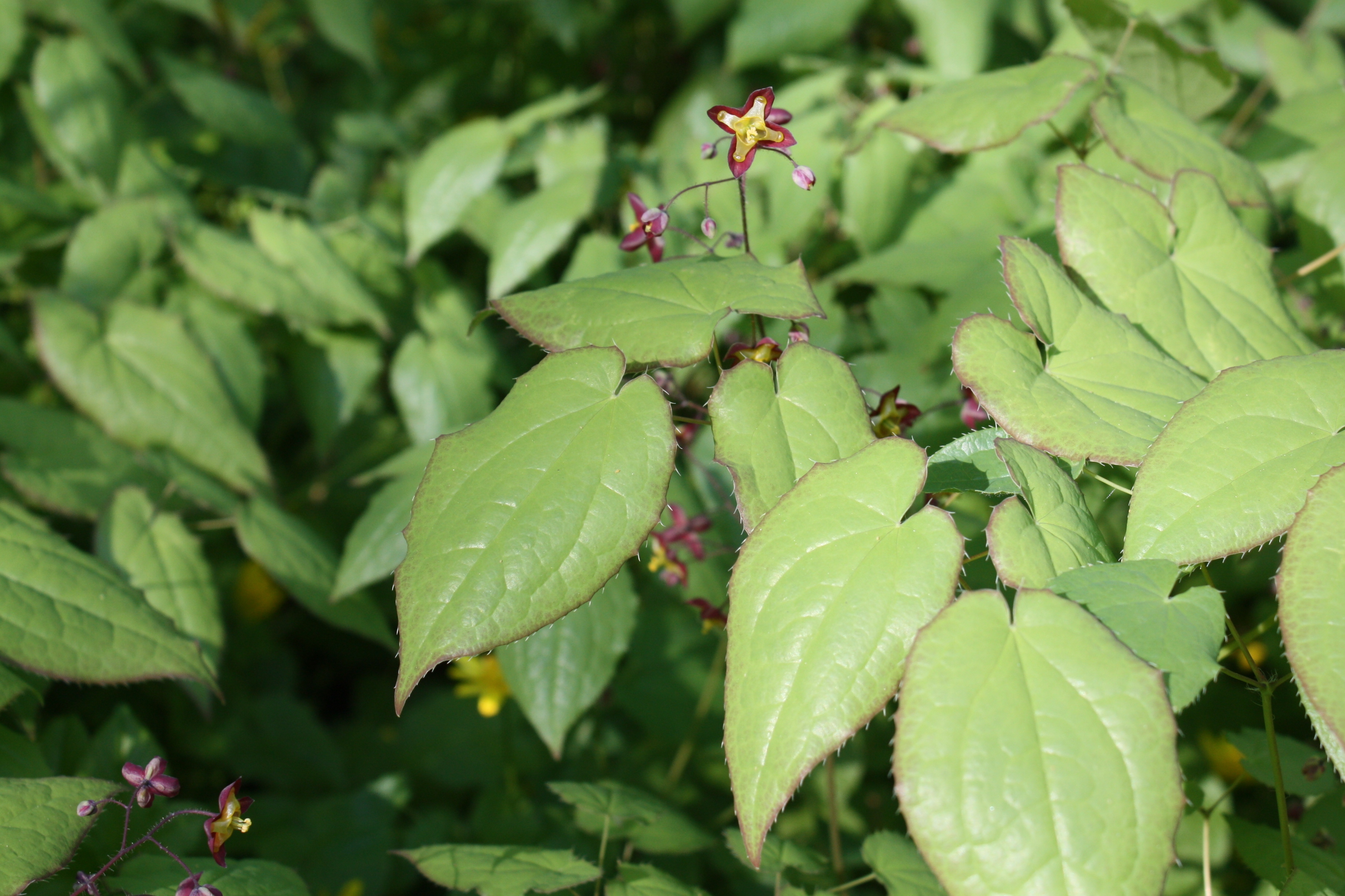 Alpine barrenwort (Epimedium alpinum) in The University of Helsinki Botanical Garden in Kaisaniemi